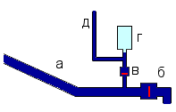 layout of a hydroblow pump